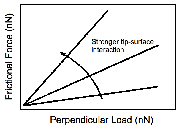 CFM Figure 4